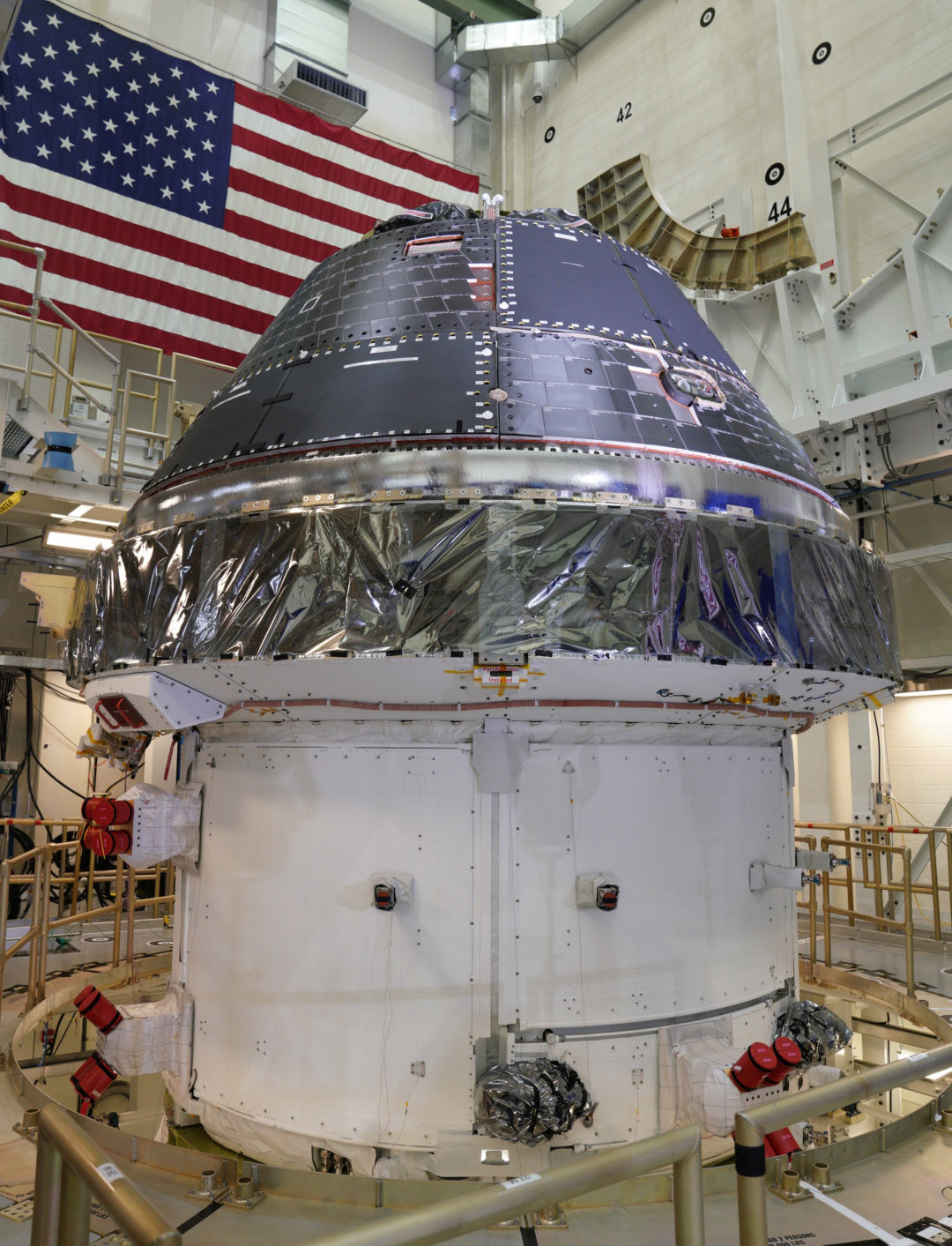 Orion spacecraft built for the Artemis 1 mission at the Kennedy Space Center